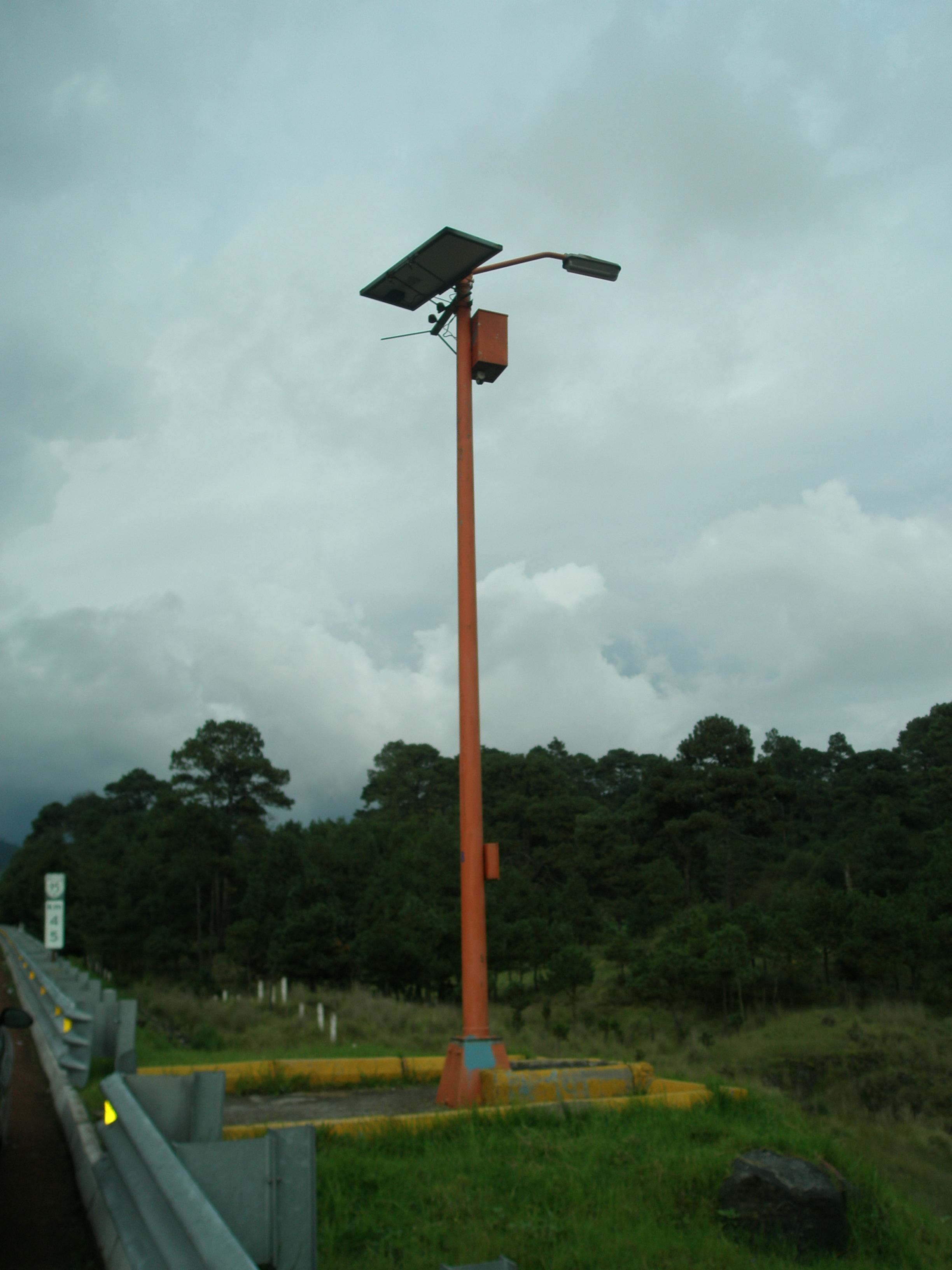 Lighting using photocells. Mexico Sun Road